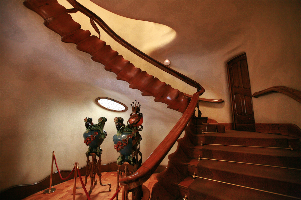 Casa Batllo is not only a building or one of the Gaudi's masterpieces, it is a legend of art. The striking Modernista facade conceals a whole world of artistic and architectural surprises. The famous Casa Batllo was built between 1905 and 1907. It is situated in the centric Passeiq de Gracia in Barcelona. The house has its name by Josep Batllo i Casanovas, he was a textile industrial that assigned of the house of Antoni Gaudi. In general the whole house gives you the filling that the whole place is alive, particuarly the inside of the house gives you a felling that you are inside in some kind of creature. The house is uniqe also because it has not a single straight line. Everything is narrow, it has planty of interesting and vibrant colors, abstract shapes and it is decorated with lot of different materials.